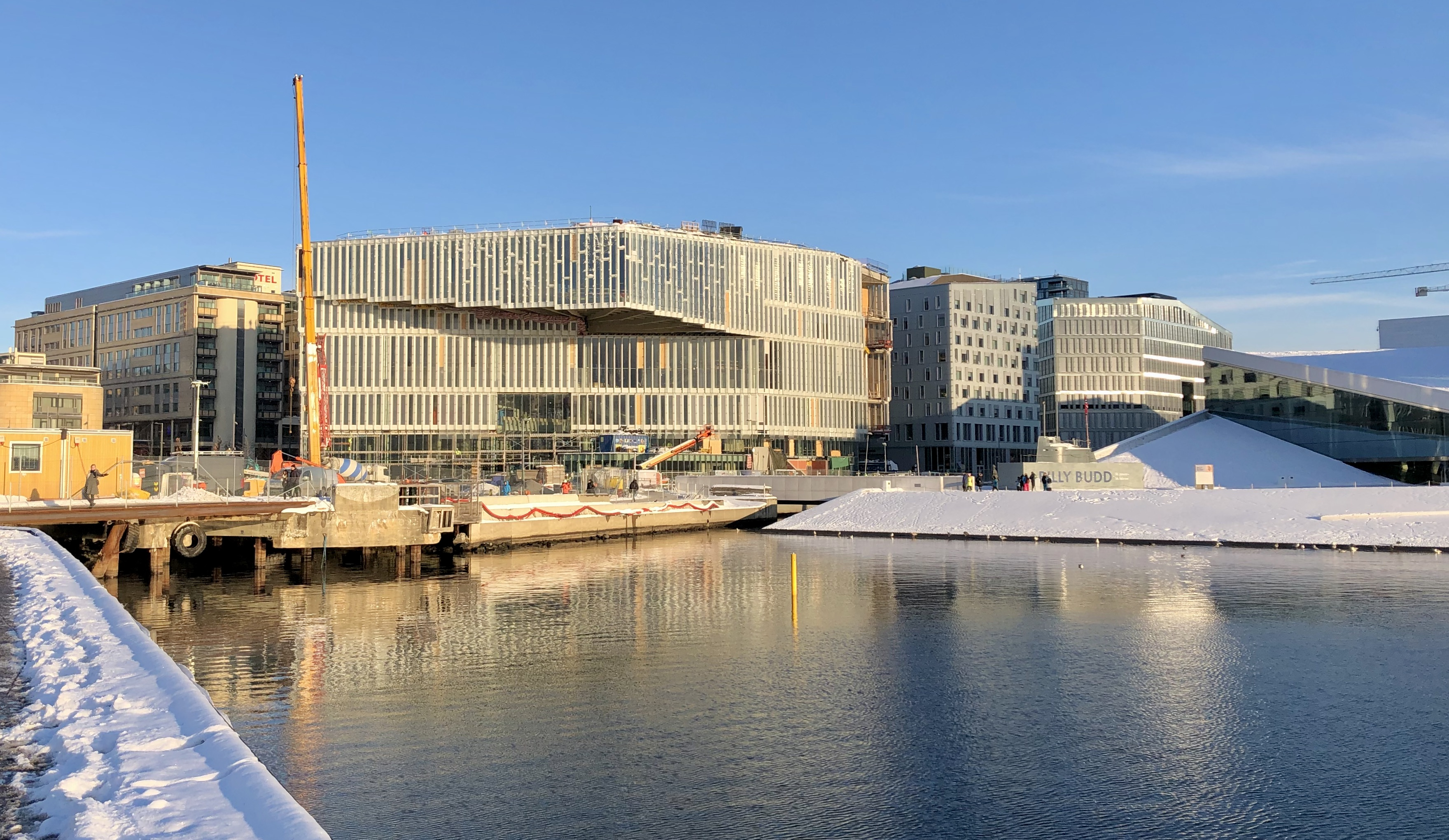 Cropped version of File:Deichmanske_bibliotek_Bjørvika_004.jpg